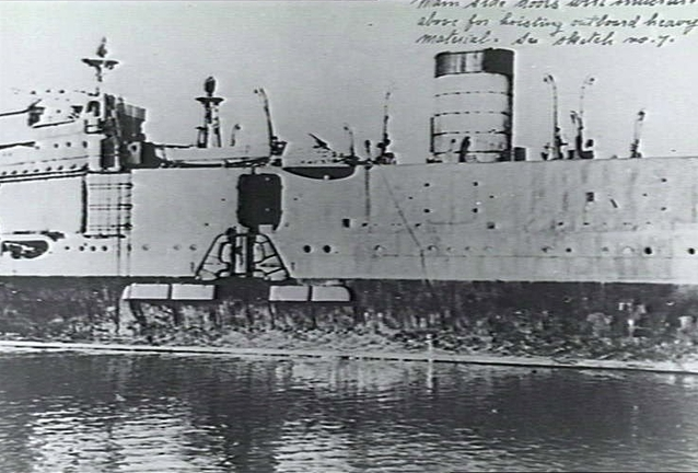 Side door of Imperial Japanese Army landing ship Shinsyu Maru.